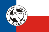 The official city flag of Lubbock, Texas.